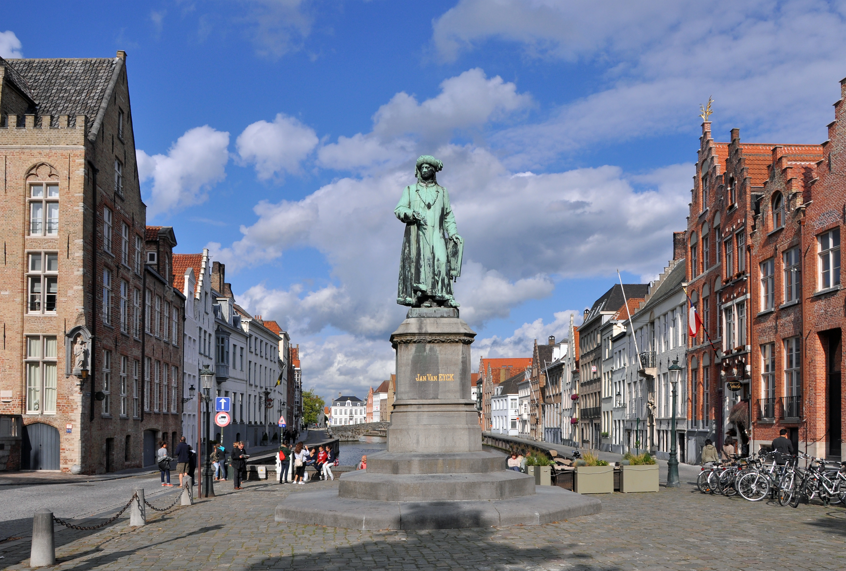 Bruges (Belgium): Jan van Eyck square